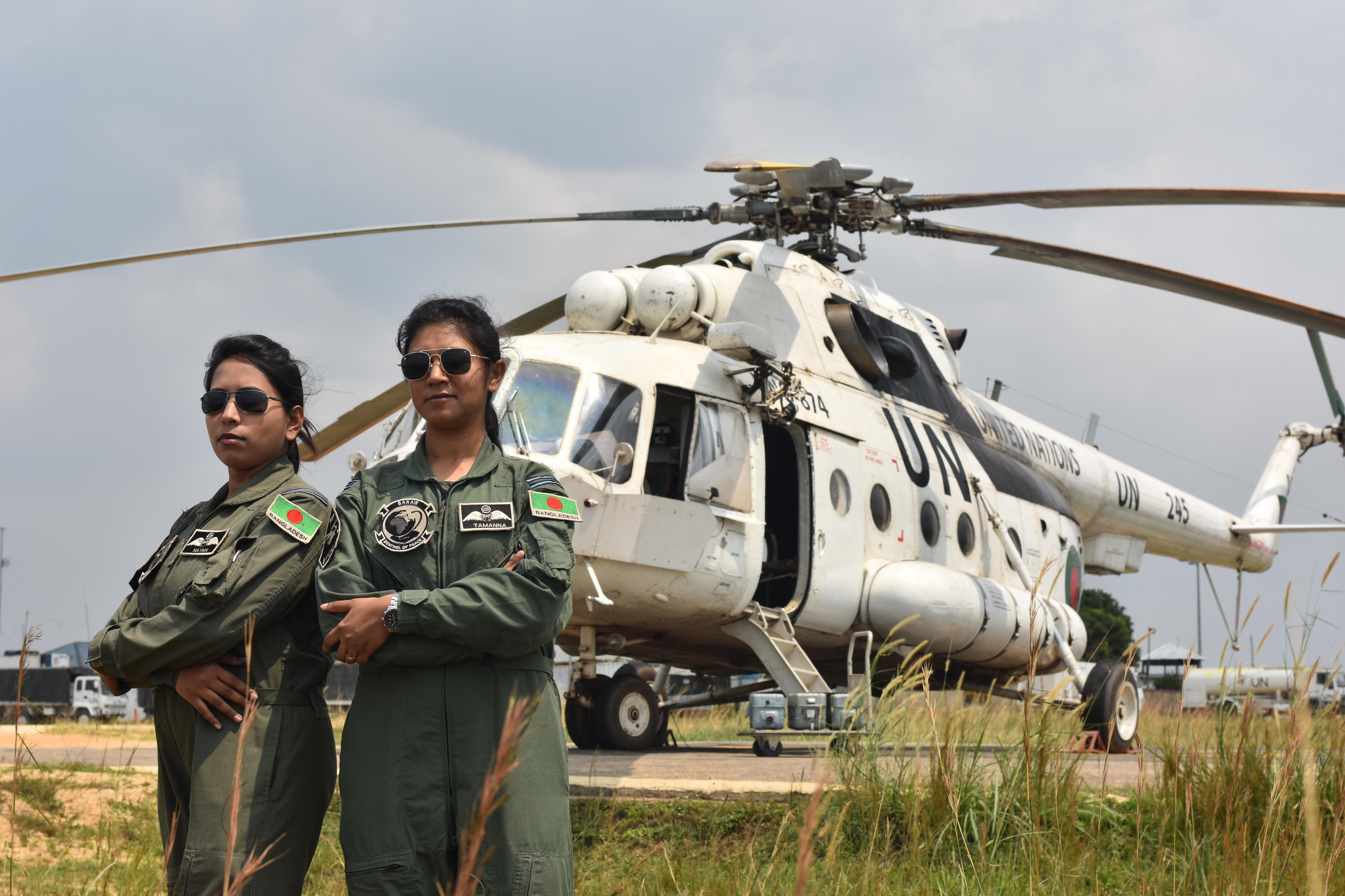 Caption: Bunia, Ituri Province, DR Congo. Pioneer female pilots deployed by MONUSCO’s bangladeshi Aviation unit (BANAIR) in Bunia. The two aviators are contributing their expertise in support of MONUSCO operations aimed at bringing peace and stability in the DRC. Photo MONUSCO/Force